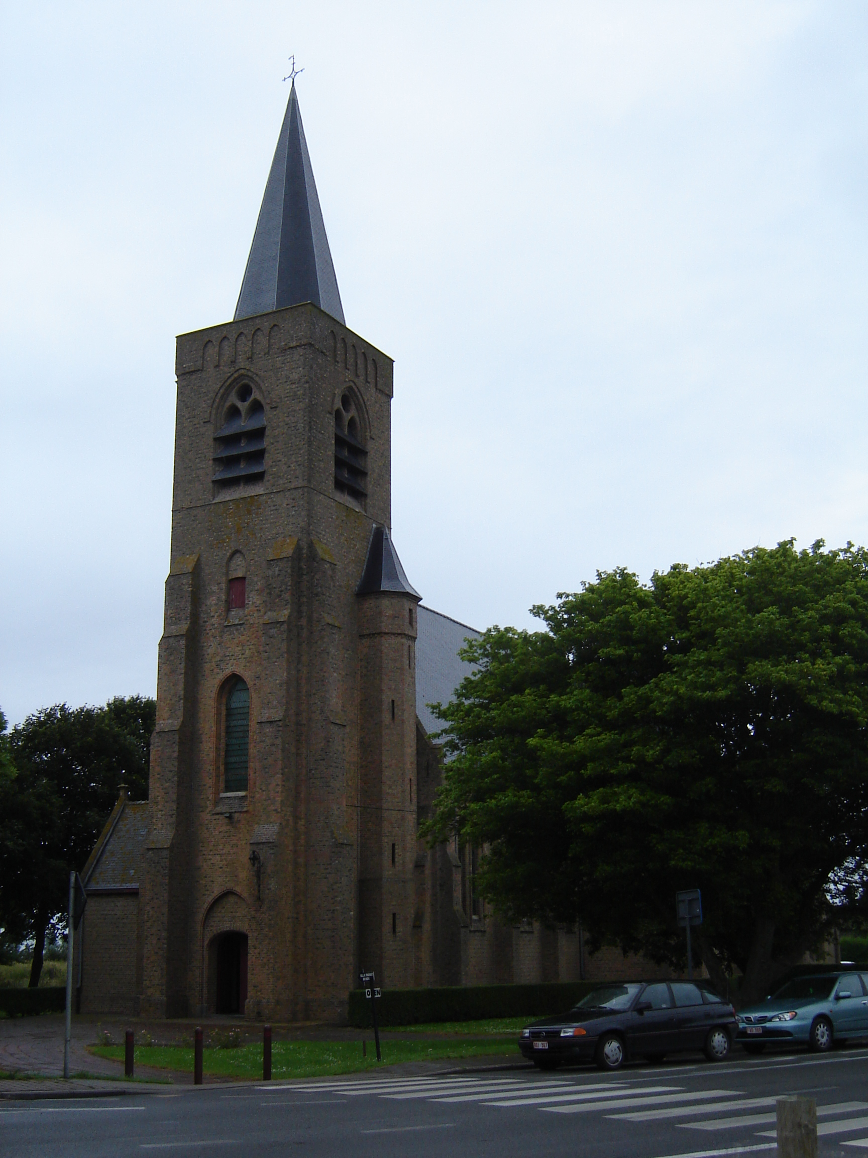 Church of Saint Bartholomew in Kaaskerke. (parish church until 2003, when the parish was abolish). Kaaskerke, Diksmuide, West-Flanders, Belgium.